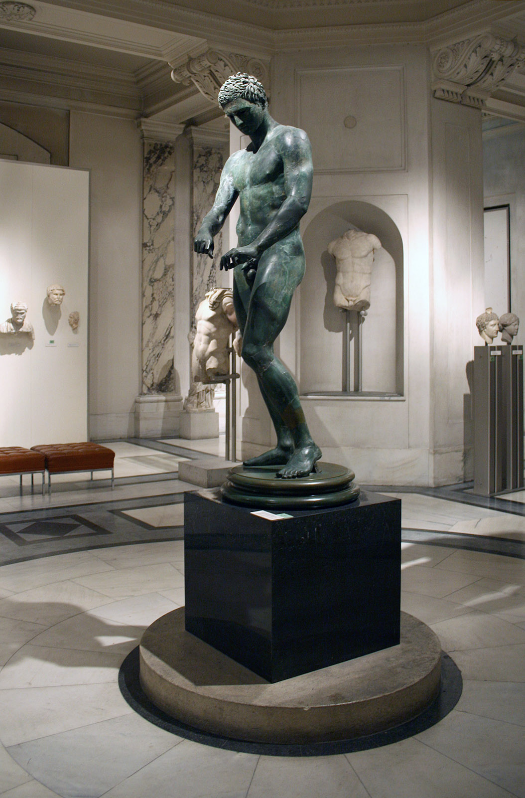 Statue from Ephesos (Ephesos-Museum, Hofburg, Vienna)